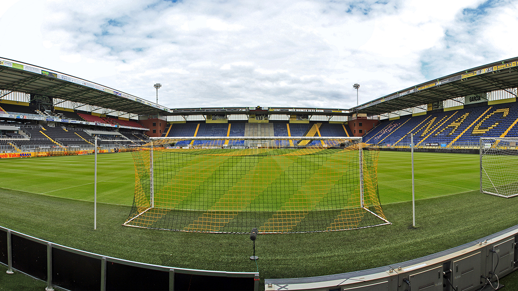 NAC Breda's Rat Verlegh stadium in Breda, August 11 2013